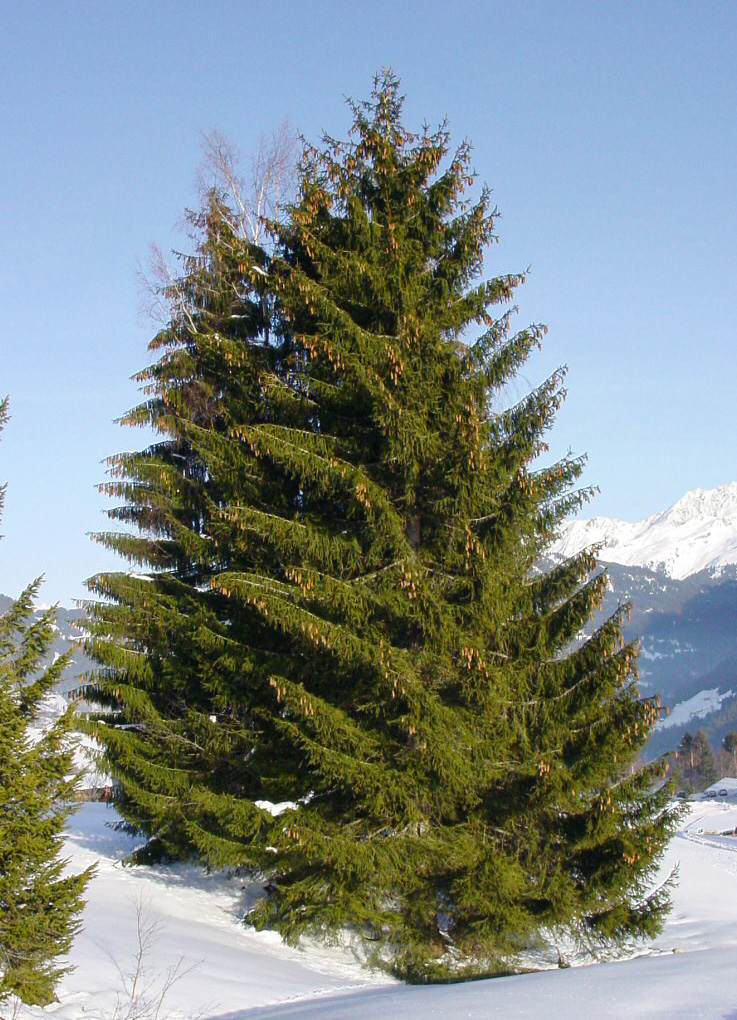 Picea abies, Norway Spruce from [1] posted via Bild:Tannen.jpg